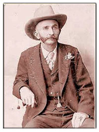 This is a photo of Captain McDonald (1852-1918). Pictures before 1924 have no copyright.